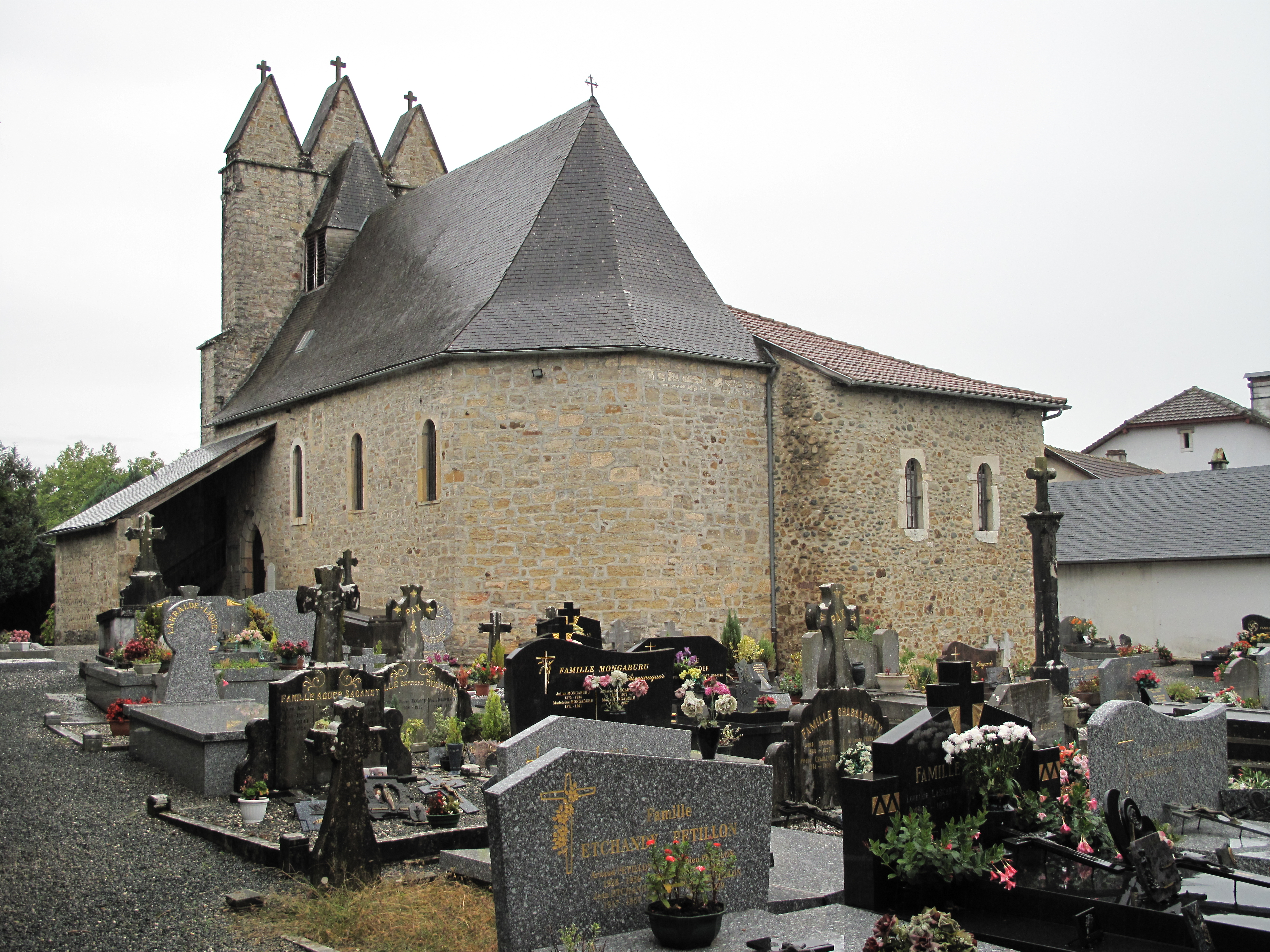 The church and the cemetery of Charritte, Pyrénées-Atlantiques, France